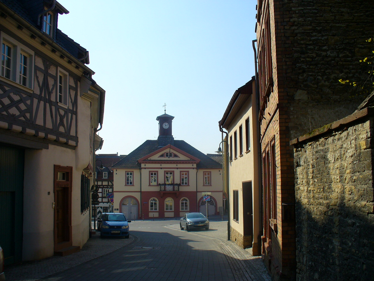 Old town hall of Ober-Ingelheim